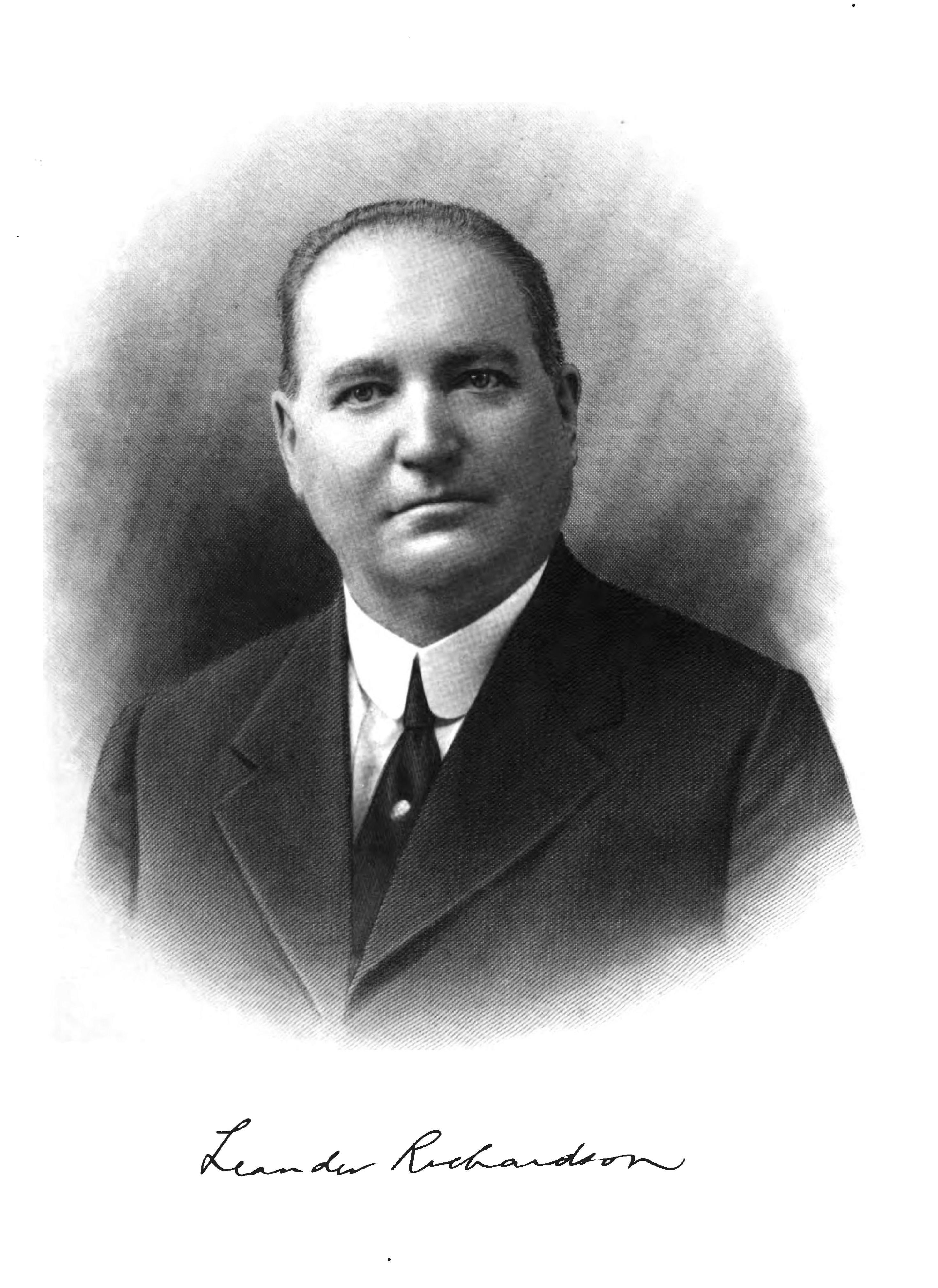 Leander Richardson (February 28, 1856 – February 2, 1918) was a journalist and critic.